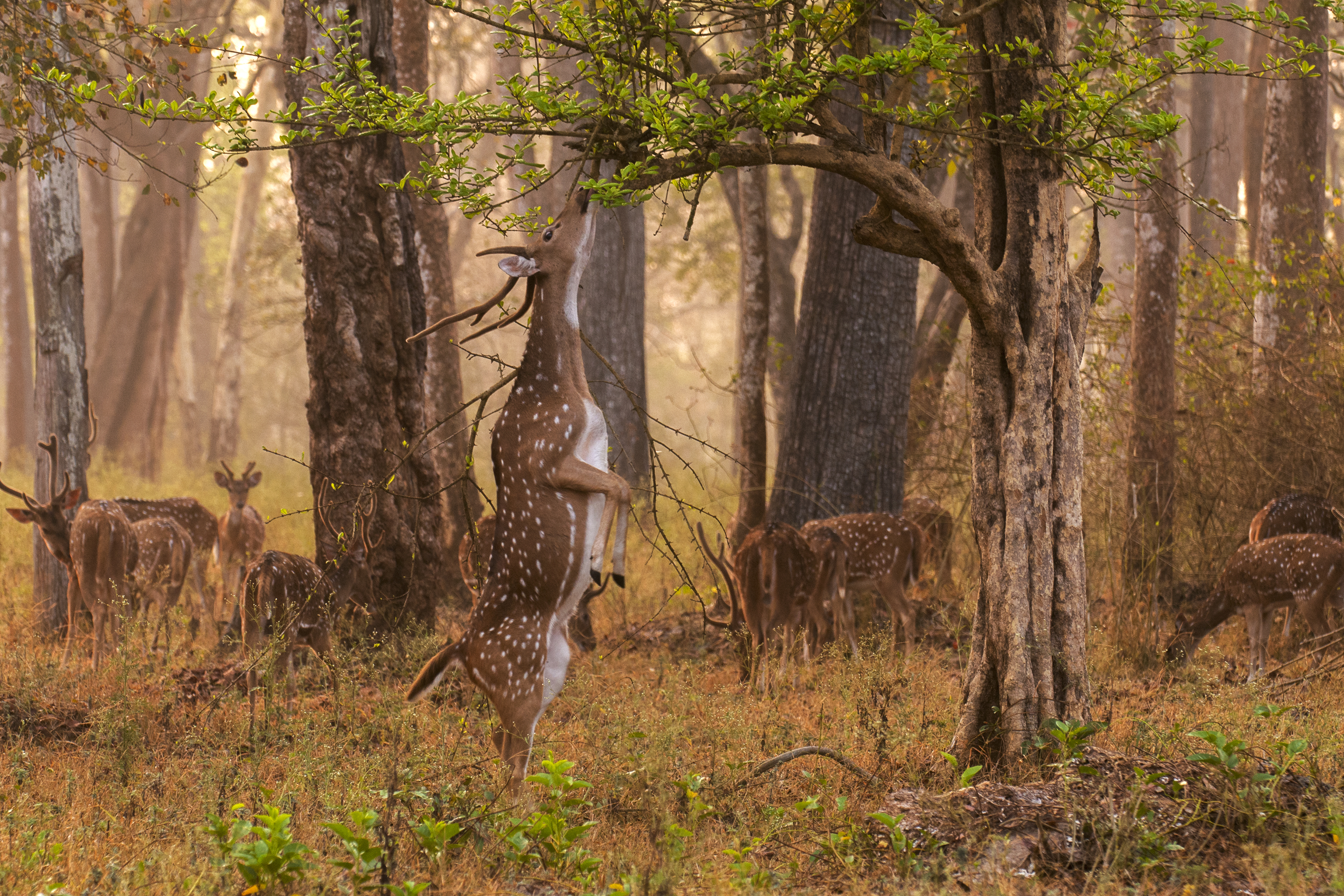 Chital (Axis axis) stag attempting to browse on a misty morning in Nagarhole National Park. The stag is on its hind legs, balancing carefully to reach a high leaf.